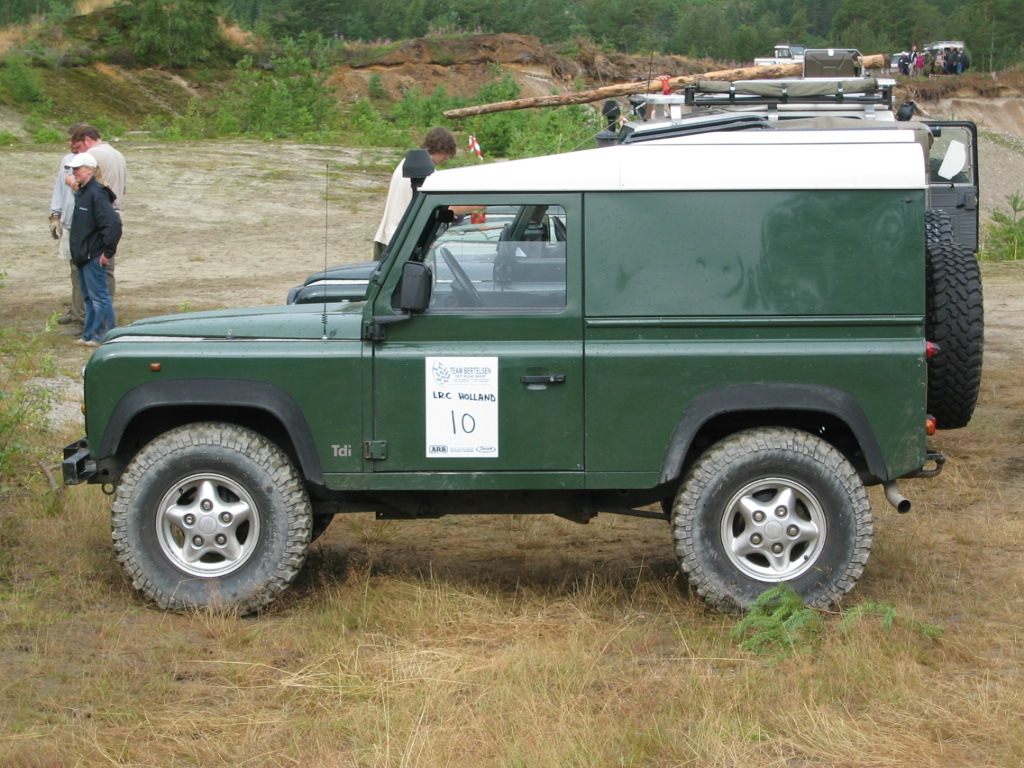 Land Rover Defender 90 hardtop during the Norwegian Land-Rover Club's 30th anniversary in Evje, Norway.